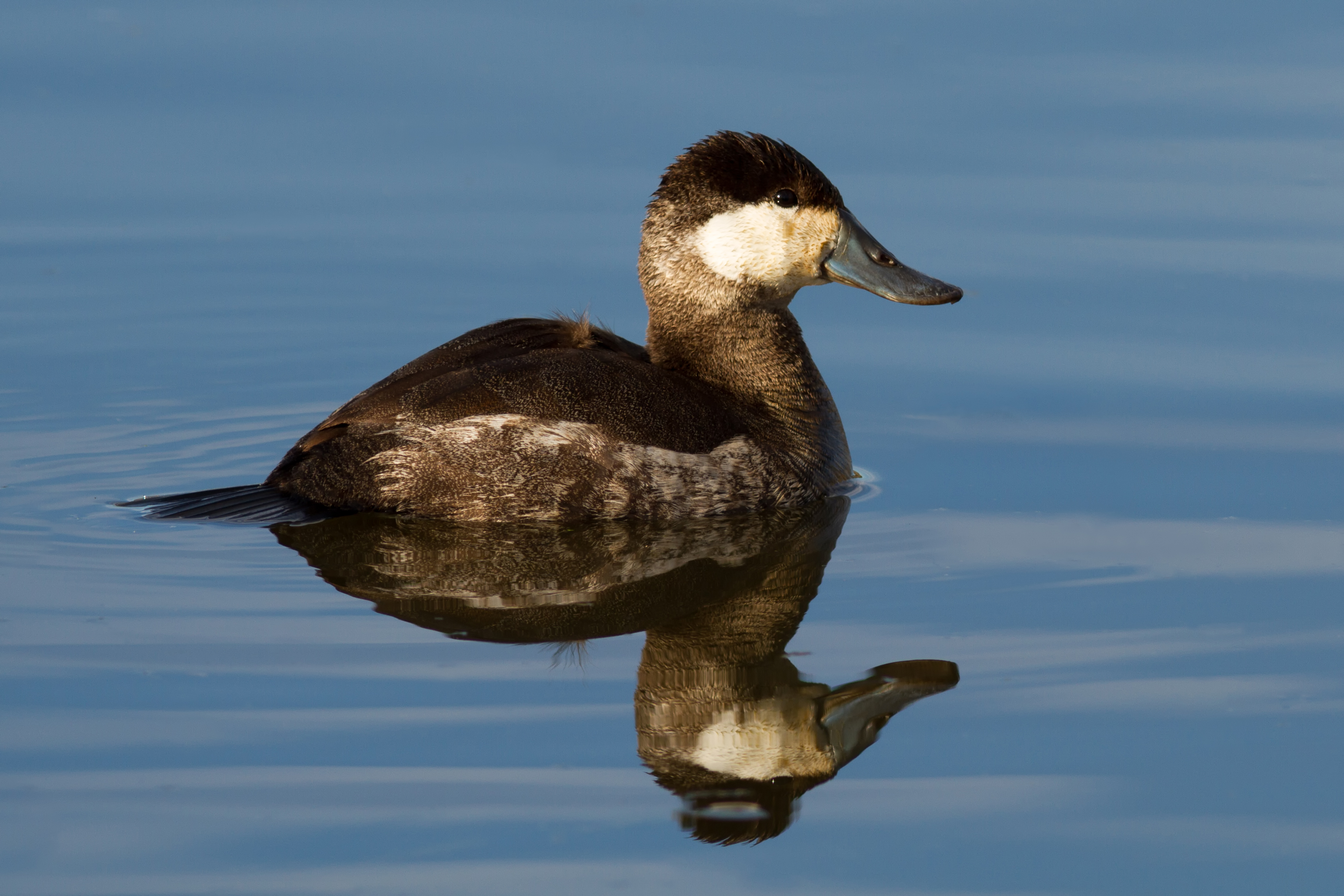 Ruddy Duck (Oxyura jamaicensis) at Las Gallinas Wildlife Ponds near San Rafael, Marin County, California.